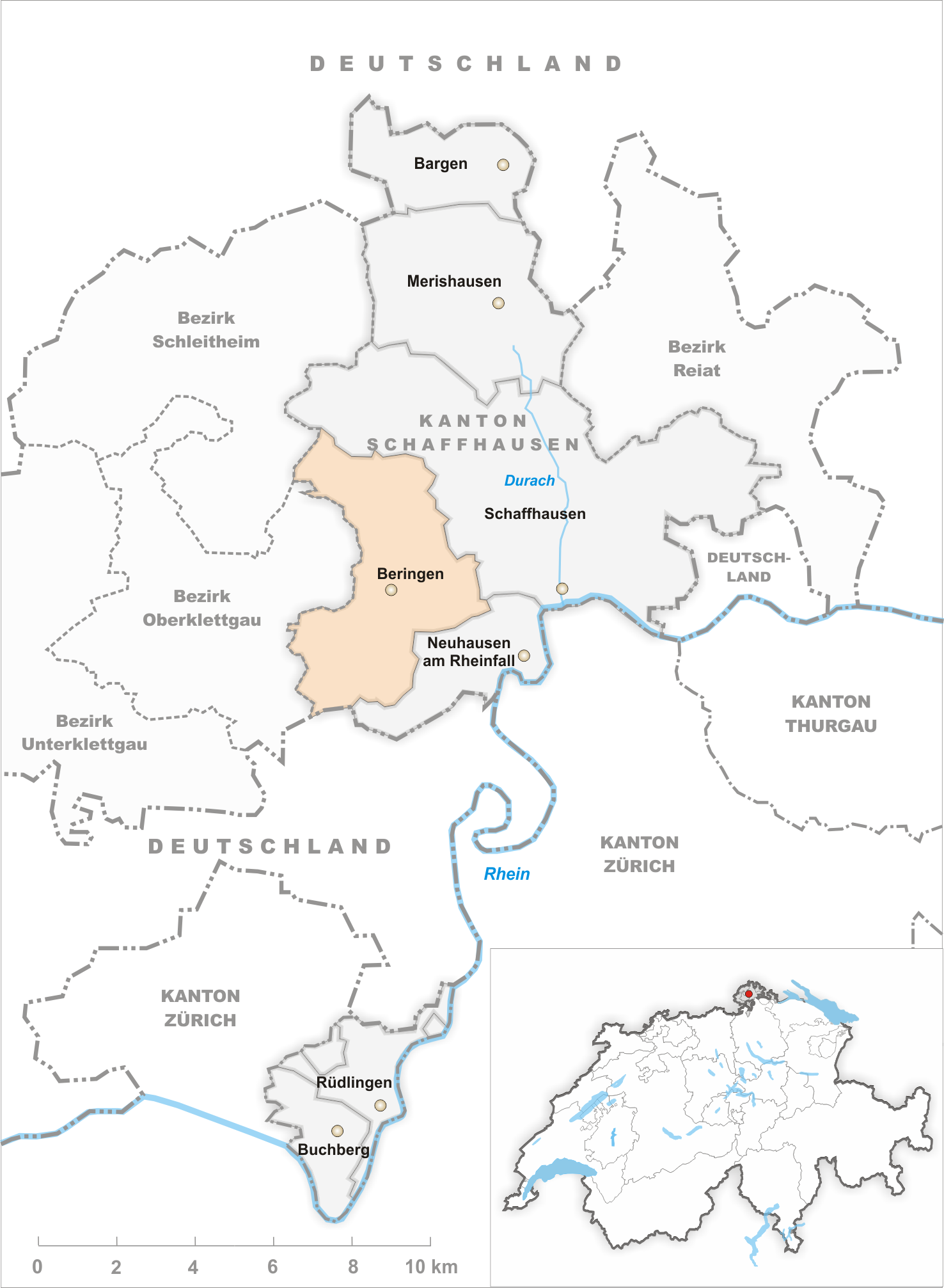 Municipality Beringen